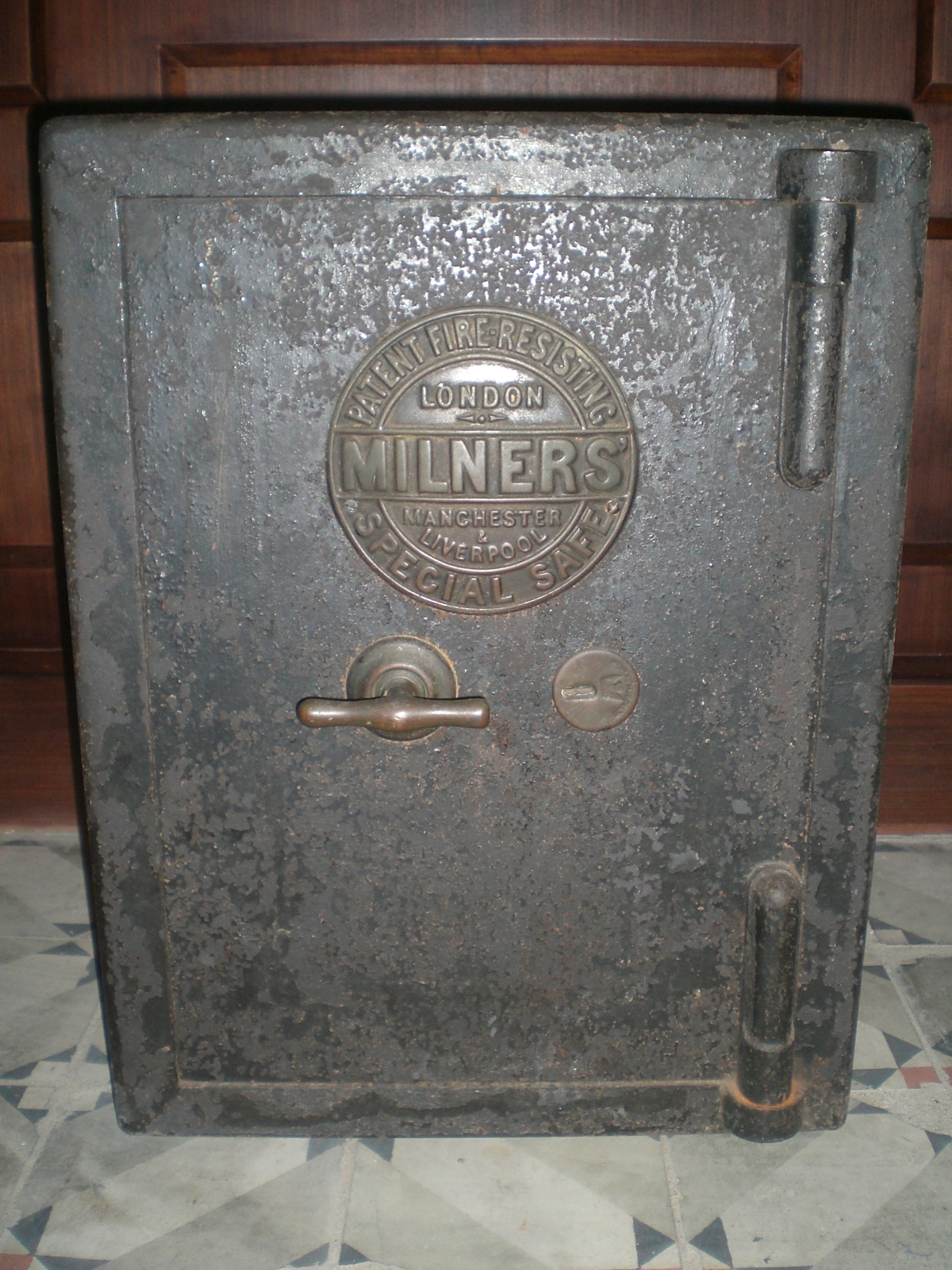 香港歷史博物館, Hong Kong Museum of History